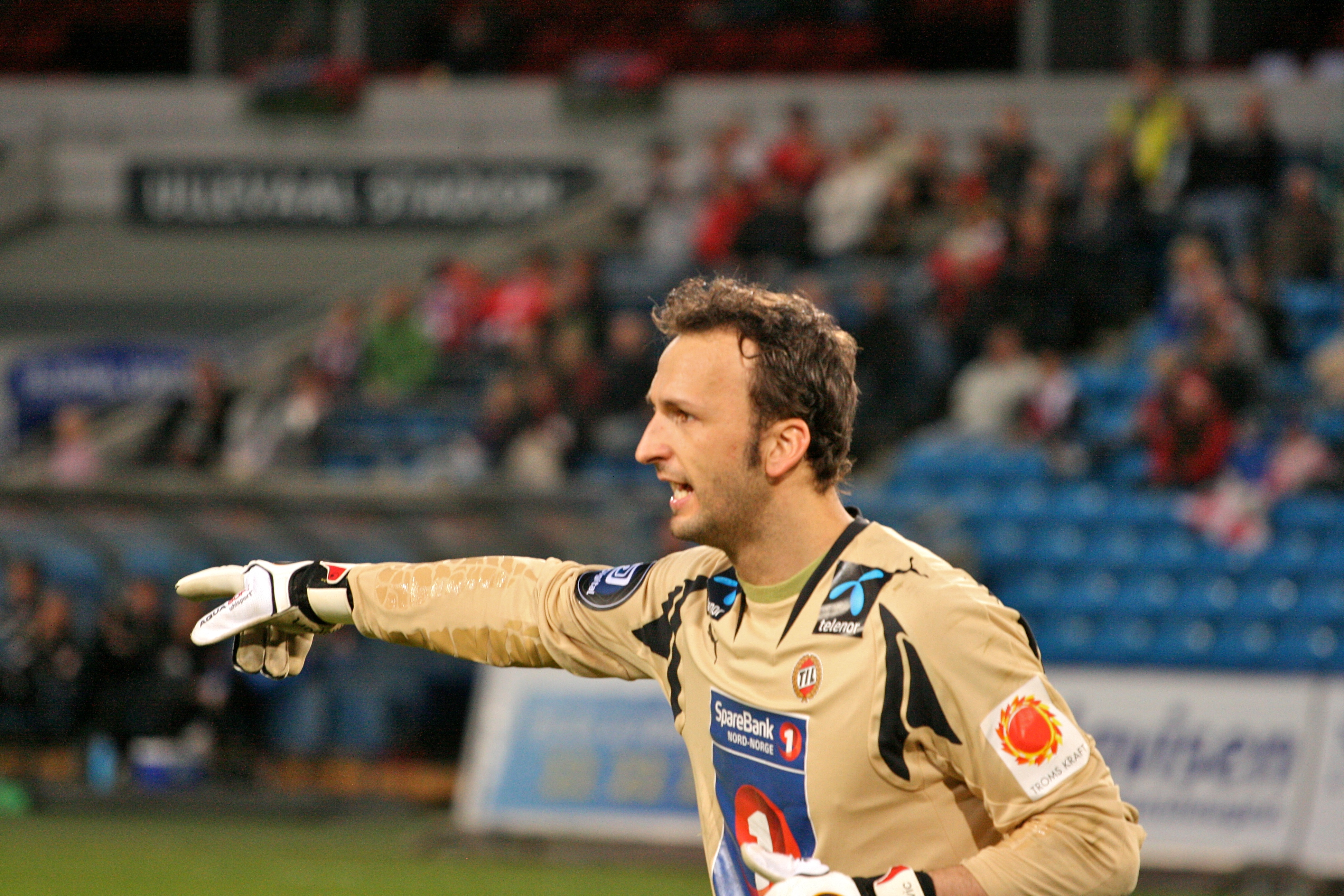 Sead Ramović, Tromsø IL footballer.